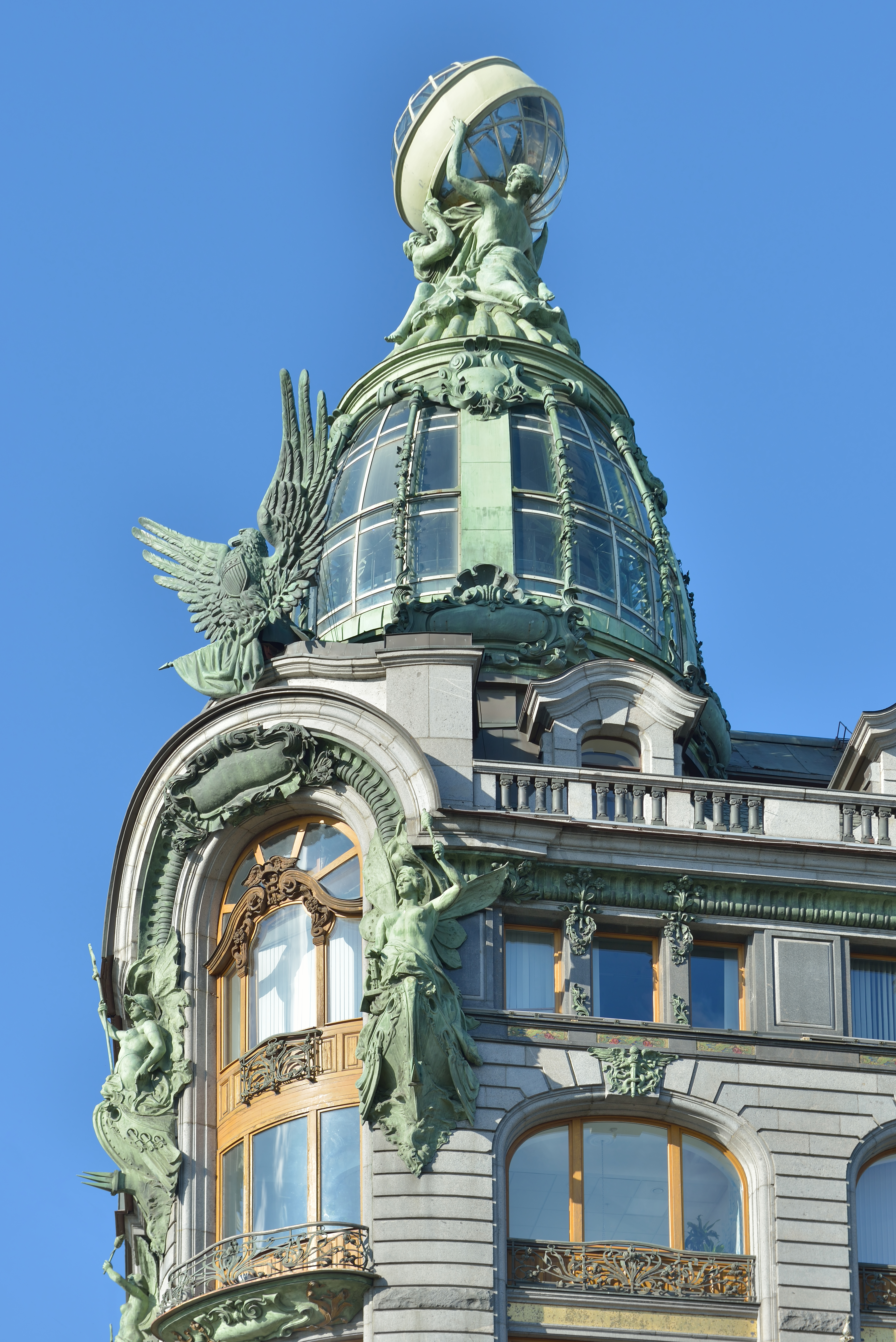 Bronze decoration Singer House in Saint Petersburg.